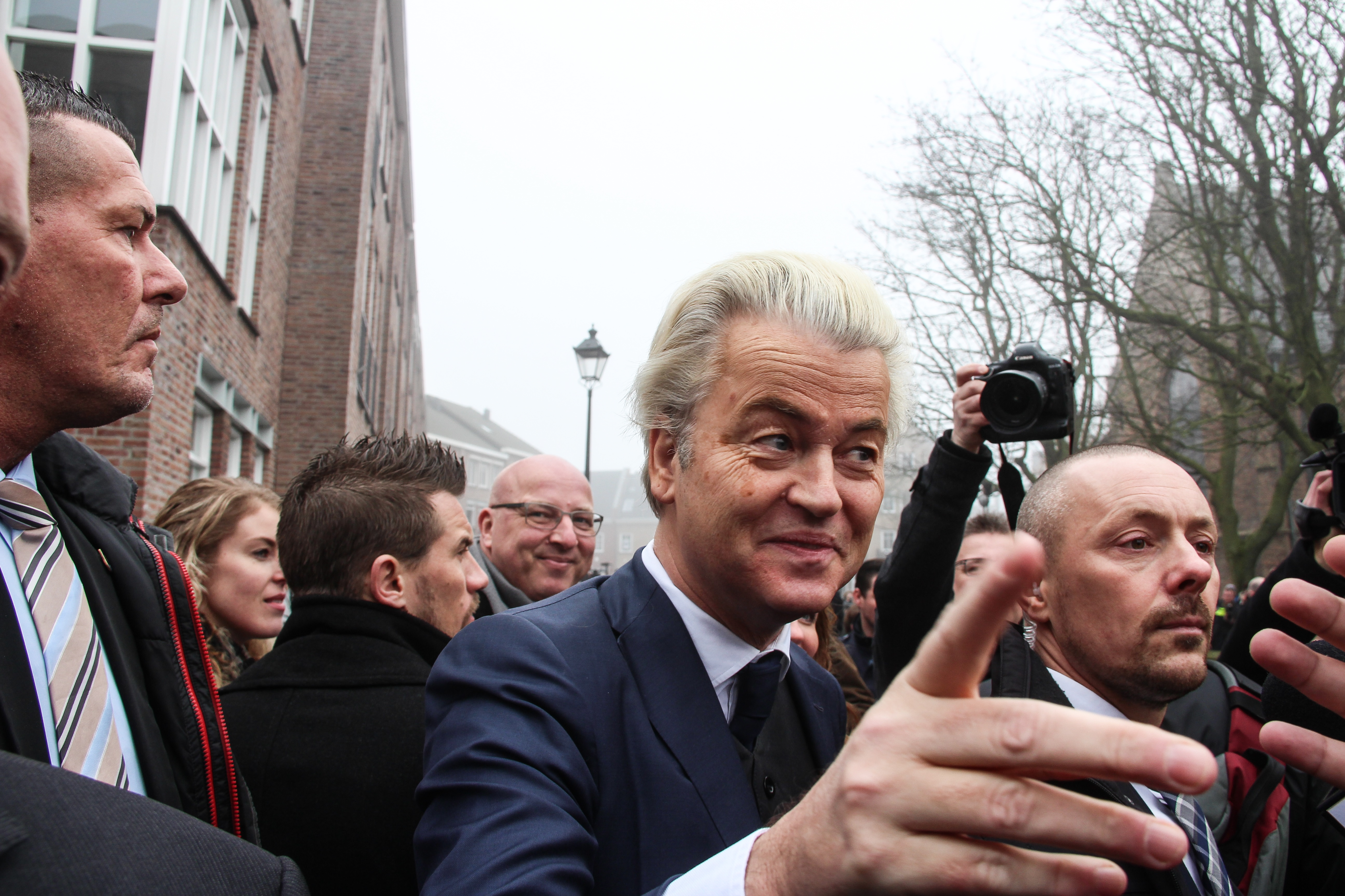 Geert gives people a hand Spijkenisse